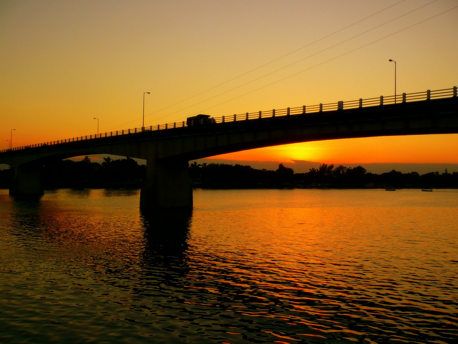 Foto del puente Tuxpan al atardecer.